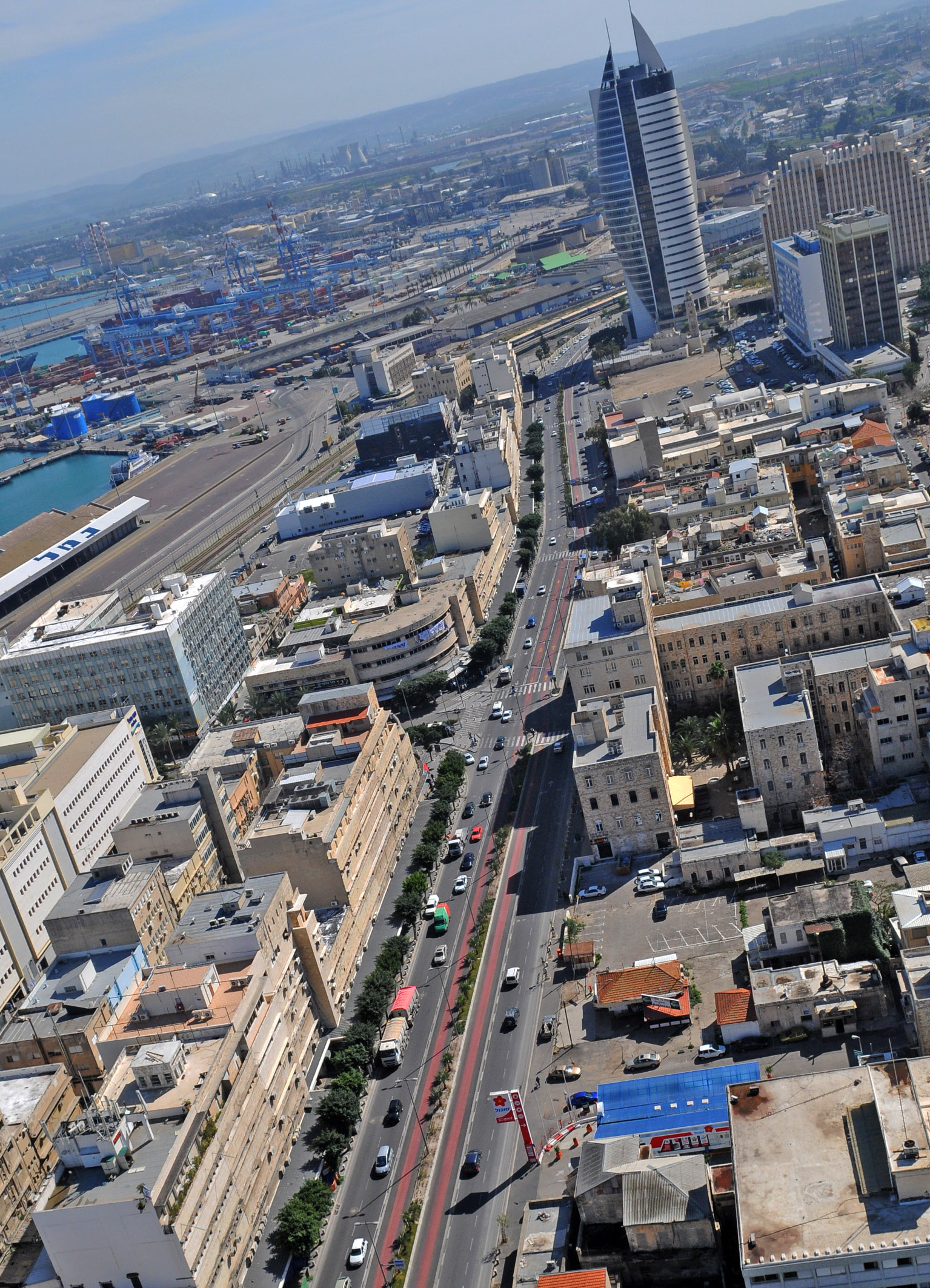 Ha'atzma'ut street, Downtown Haifa